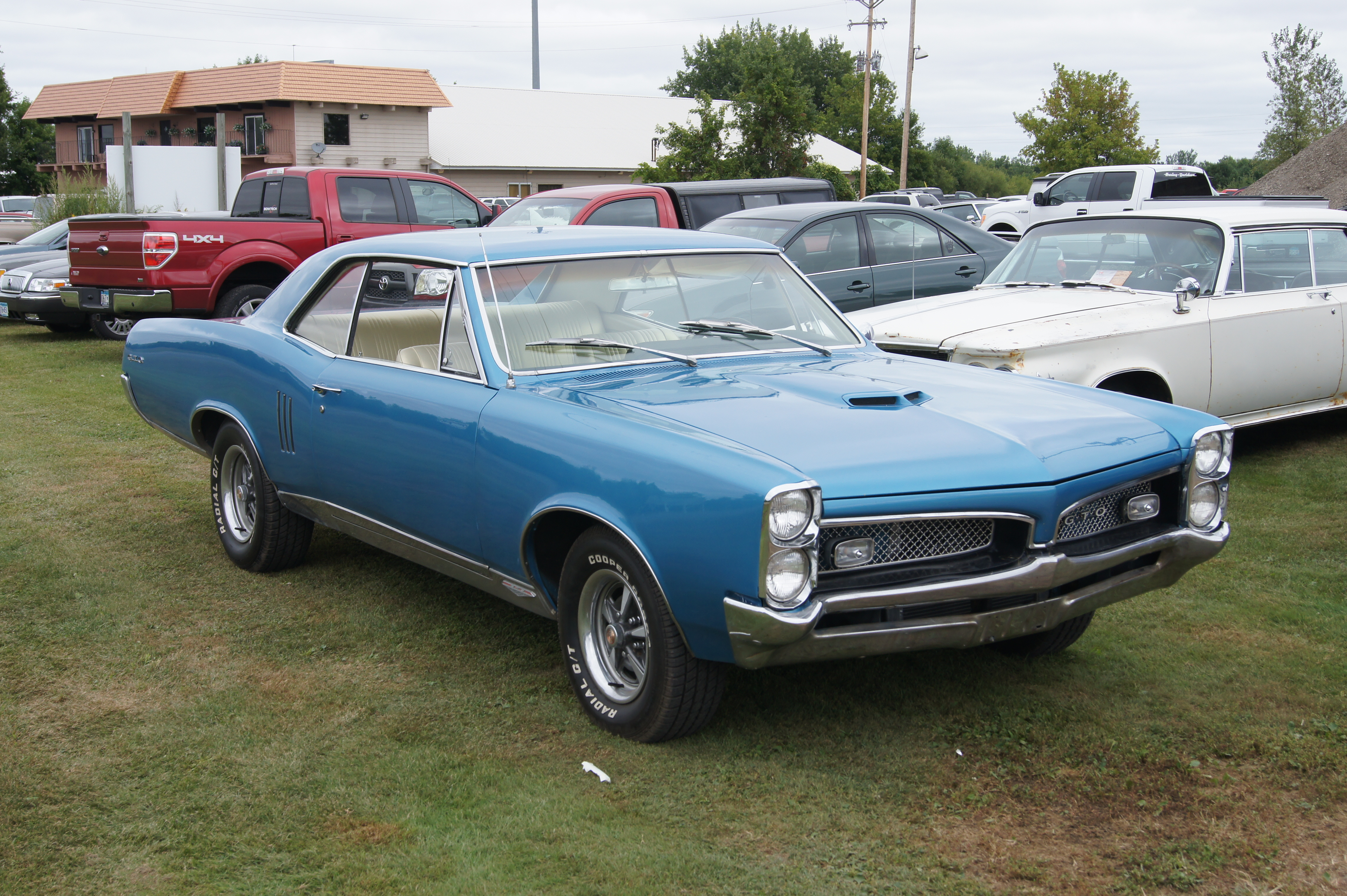 North Star Chapter Studebaker Drivers Club 13th Annual Labor Day Car Show September 2, 2013 Blacksmith Lounge Hugo, MN More Car Pictures